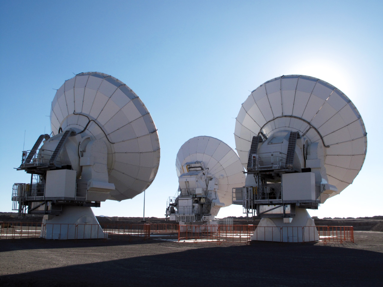 At the end of March 2010, the three antennas already positioned on Chajnantor were moved to a new location at the centre of the site, using the antenna stations that will eventually form the Atacama Compact Array. This enables the Commissioning and Science Verification team to put the antennas close together, which is essential for some of the critical tests of the antenna performance and the stability of the system.